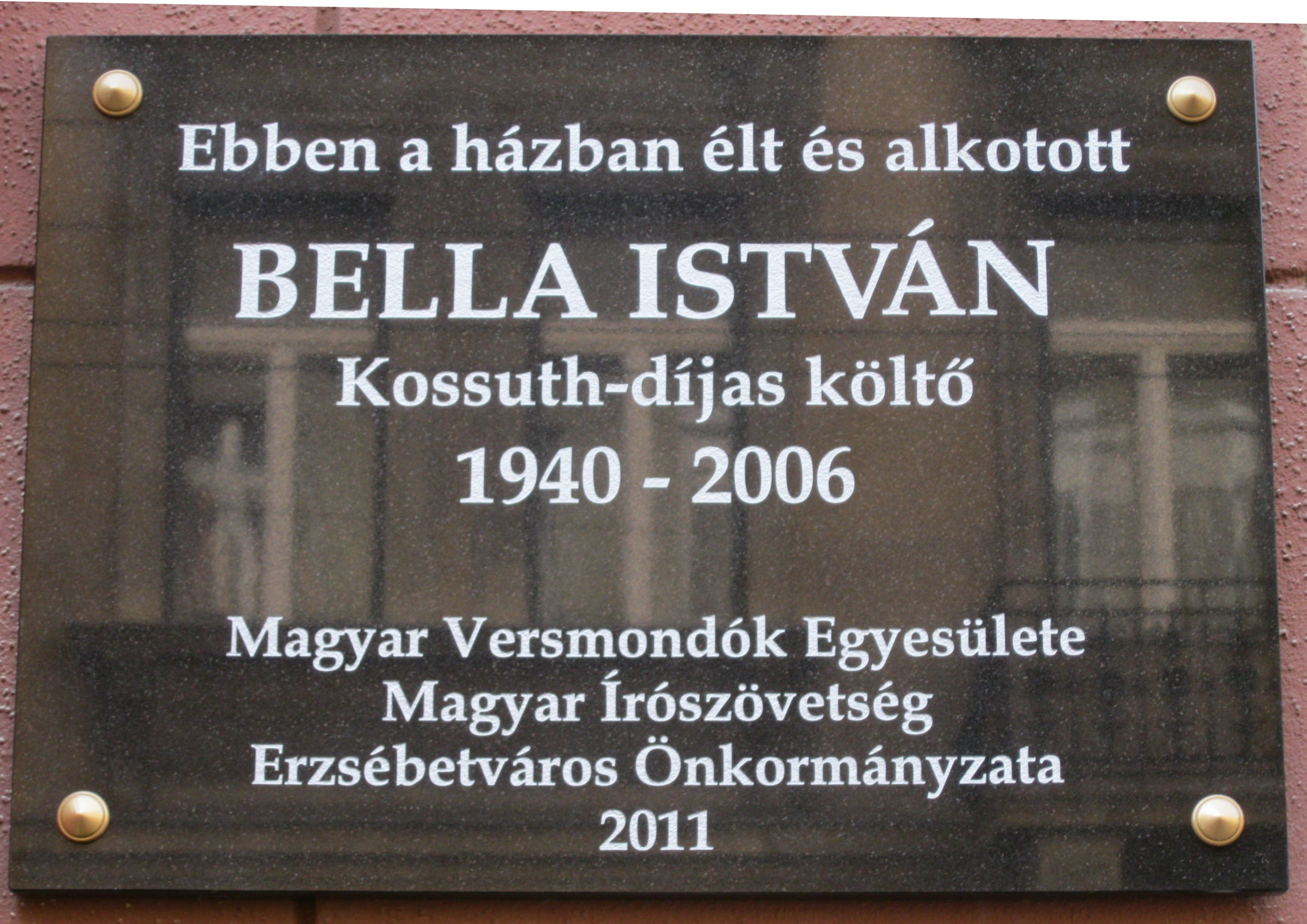 Commemorative plaque of István Bella, Budapest District VII, István Street No 12